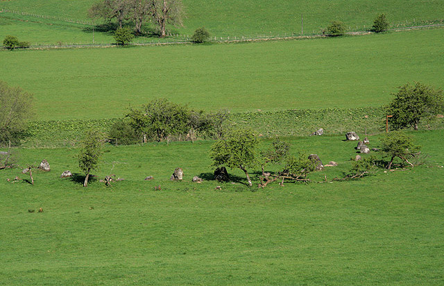 The Girdle Stanes stone circle This stone circle originally comprised of 40 to 45 stones but over time the White Esk river has swept stones away and only 21 survive. Viewed from the B709.